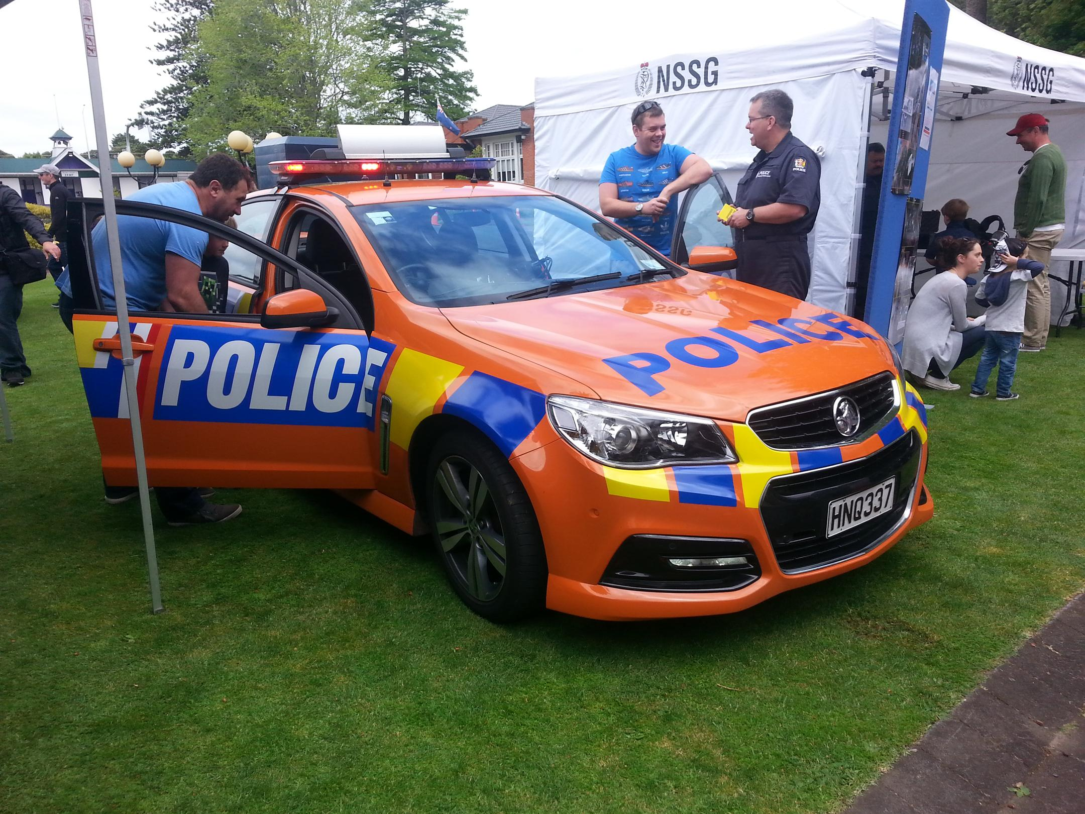 Holden Commodore VF SV6 currently being used by the New Zealand Police for Highway Patrol. The VF SV6/Evoke was a temporary vehicle for the New Zealand Police while they waited for the VF Evoke to be produce, it also replaced the VE Commodore in 2013 providing more engine capacity and later specifications than the VE. The VE Commodore is now slowly being phased out. Vehicle registration enquiry resultsJurisdictionNew ZealandRegistrationHNQ337Chassis code6G1FB5E39EL980785Engine codeLFX140860155Year of manufacture2014